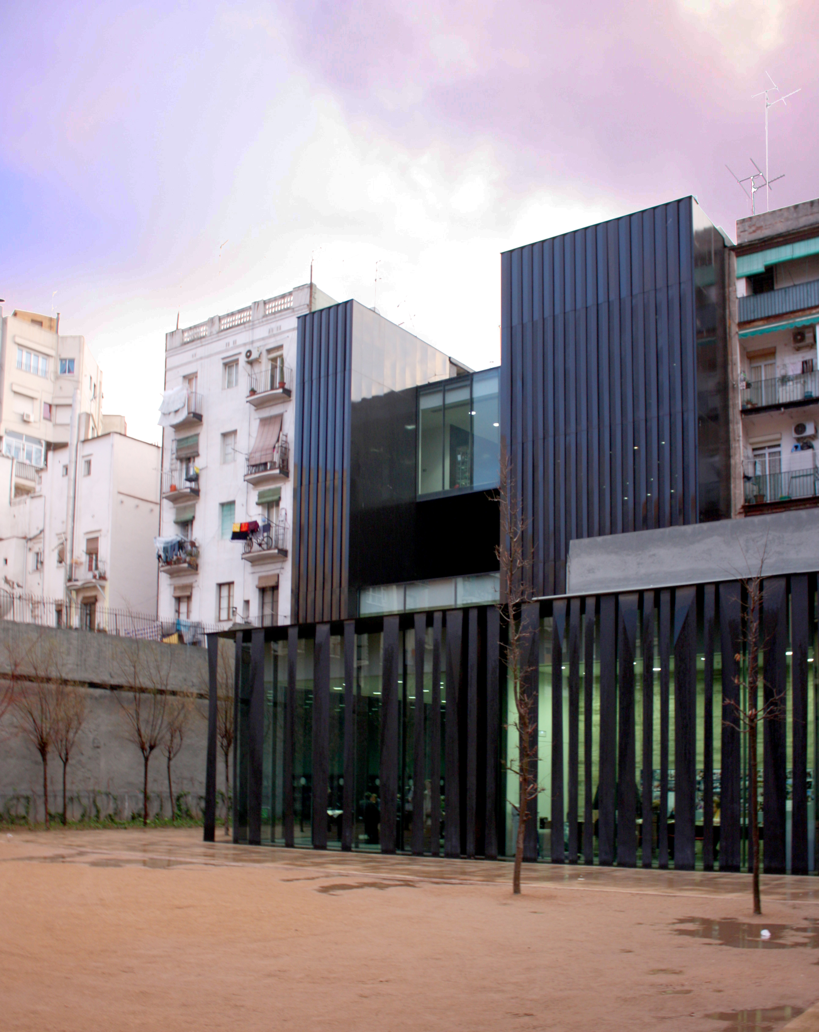 View of the library of Sant Antoni. RCR Arquitectes.